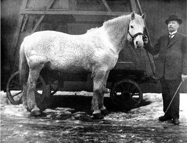 Kristiania Sporveisselskab's last horse and operations manager Poppe.